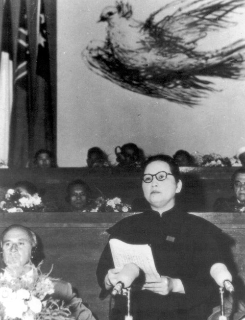 Soong Ching-ling at World Peace Congress in Vienna